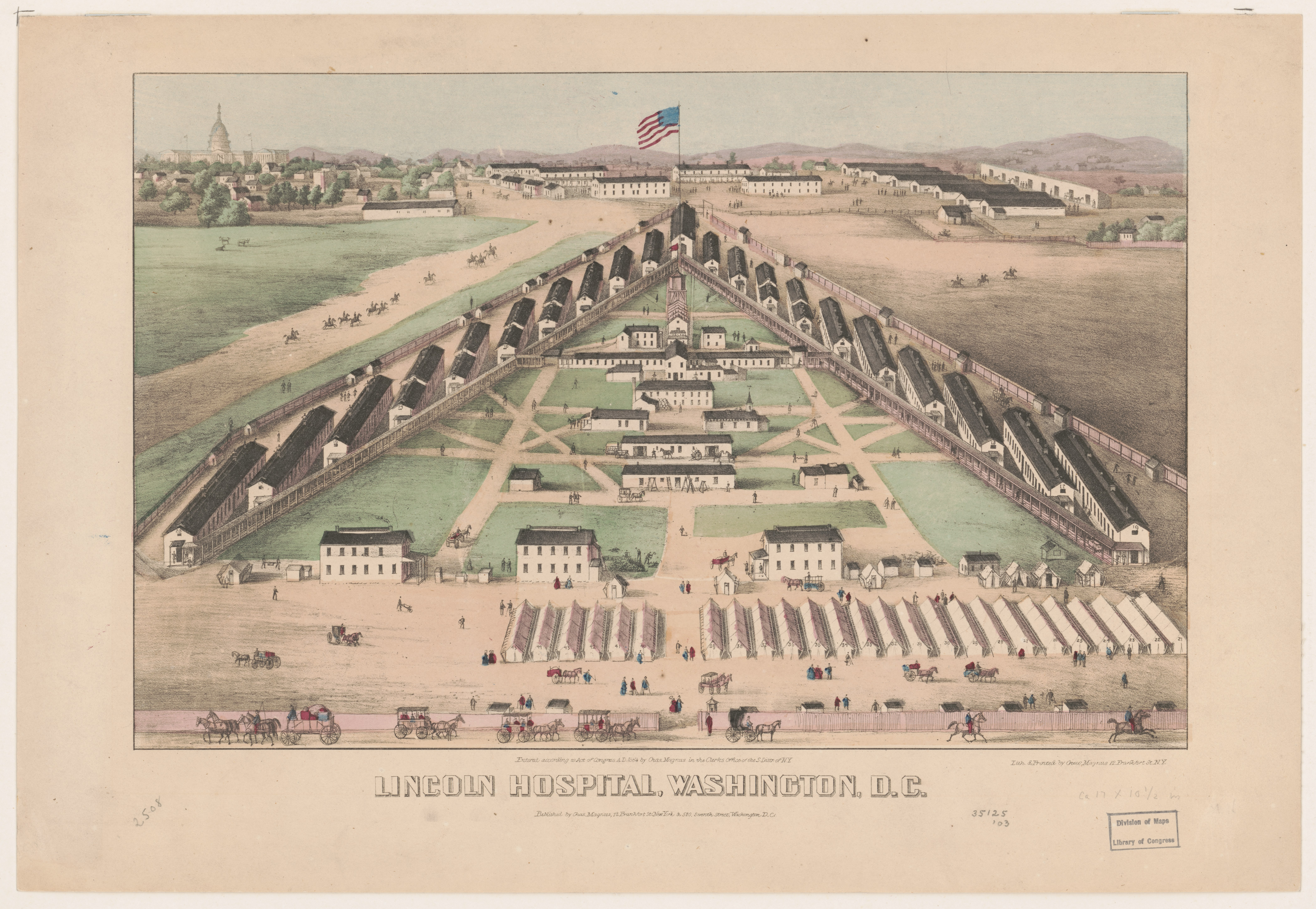 Title: Lincoln Hospital, Washington, D.C. / lith. & printed by Chas. Magnus, 12 Frankfort St., N.Y.. Abstract/medium: 1 print : lithograph, hand-colored ; shhet 35.5 x 52 cm.